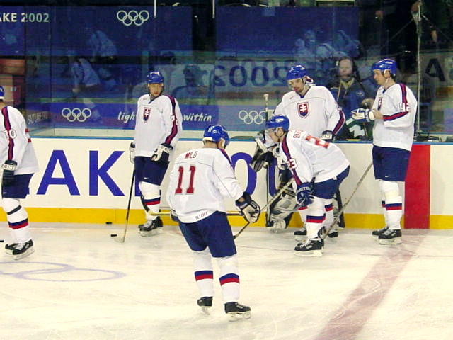 Team Slovakia, Winter Olympics 2002.